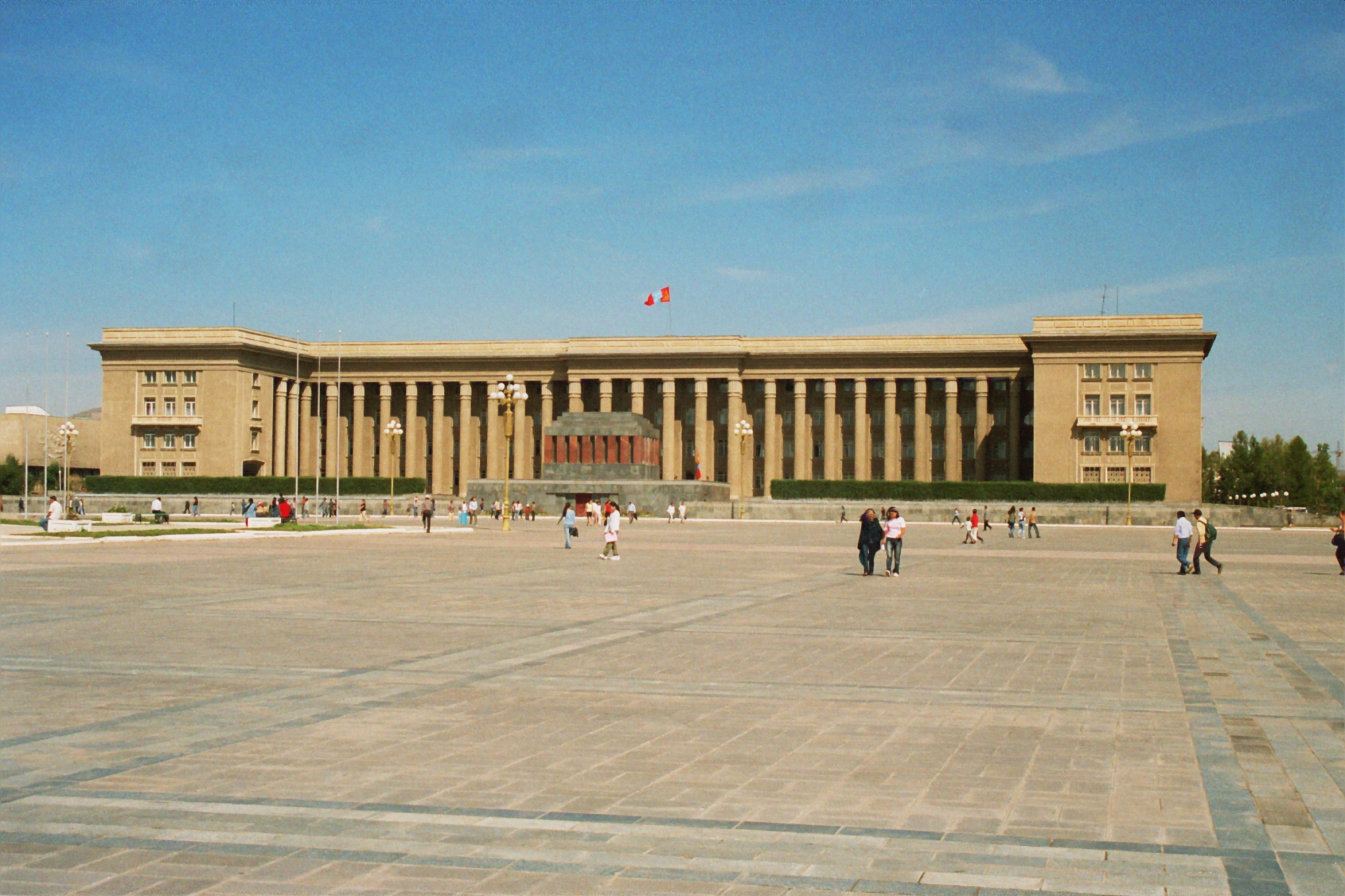 Government building and Sühbataar's mausoleum, Ulan Bator, Mongolia